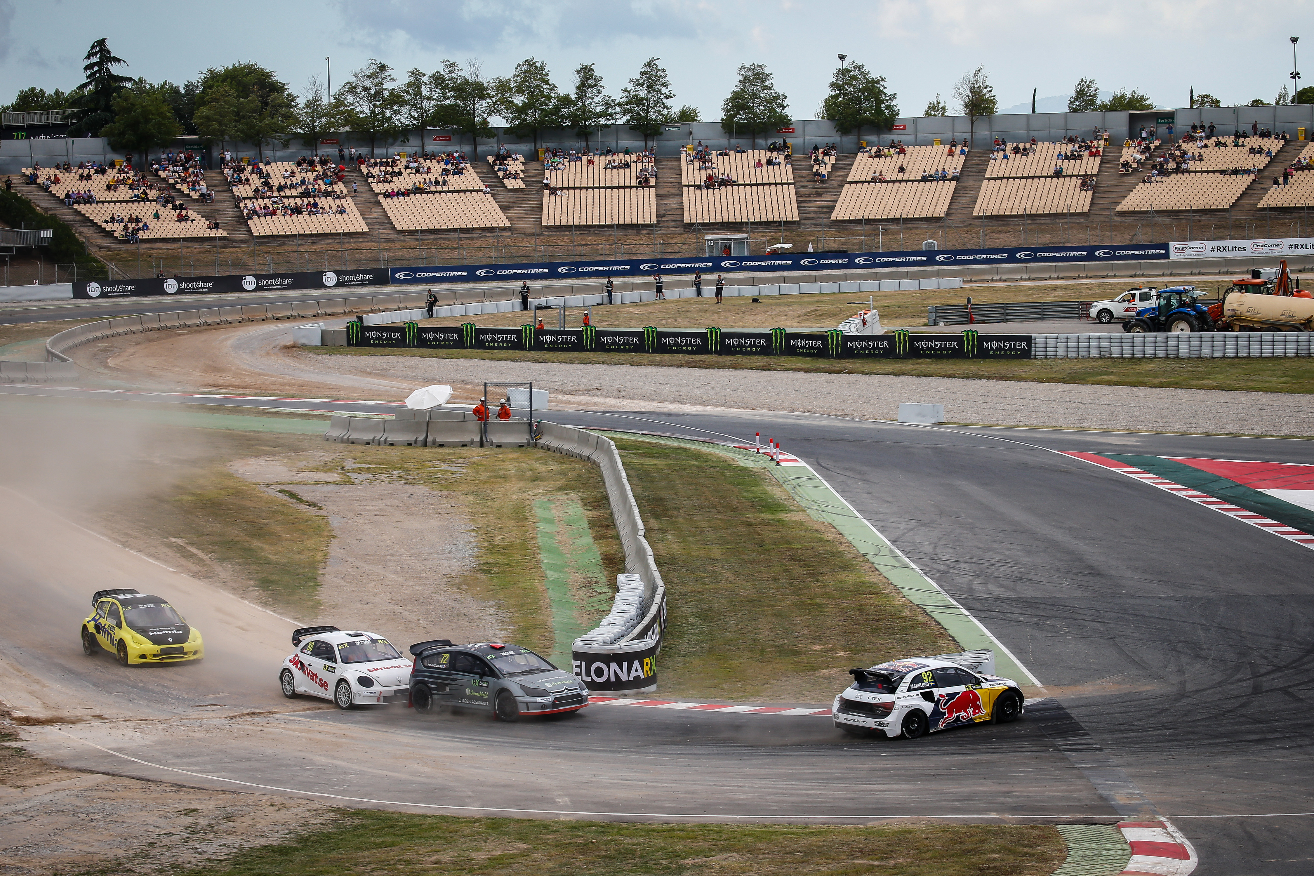 2015 FIA World Rallycross Championship // Round 10 // Barcelona, Spain // 18-20 September 2015 // Worldwide Copyright: EKS/McKlein